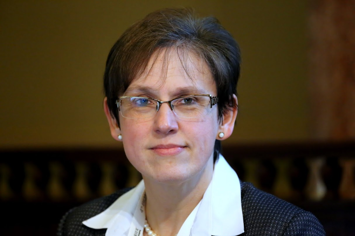 Romána Zelkó professor